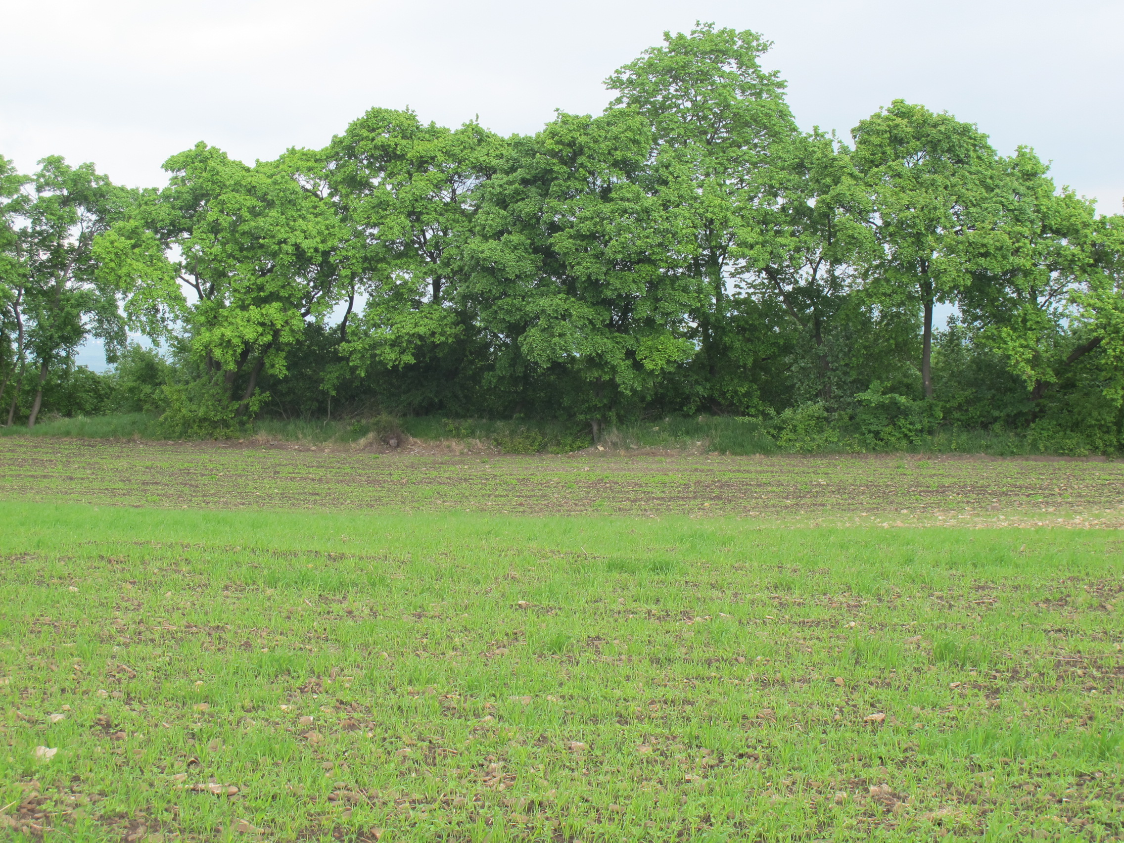 Hillfort Výrov (Czech Republic) - Banks in the North Side